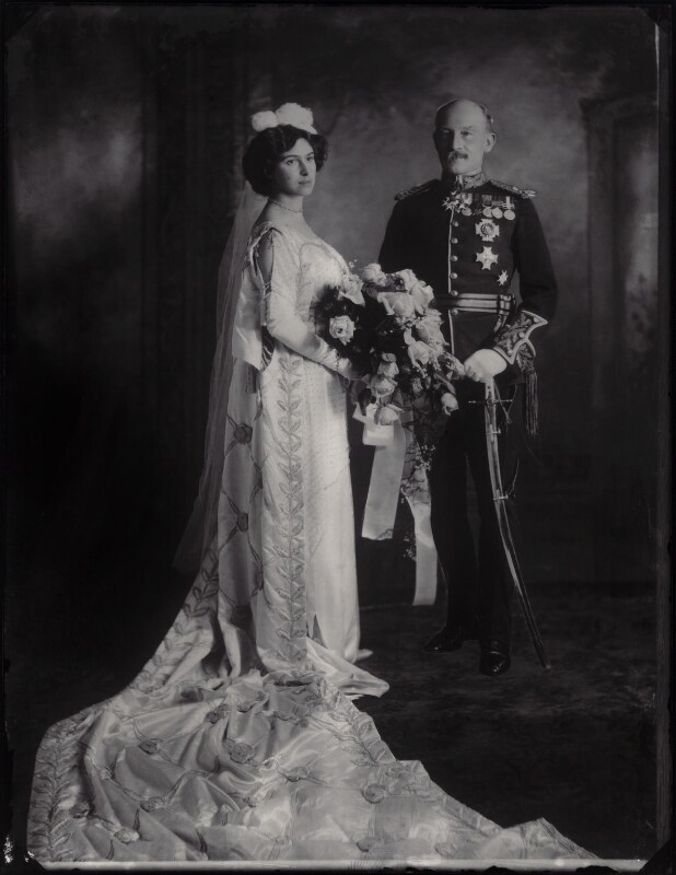 Baden-Powell's wedding at St Peter's Church, Parkstone on 31st October 1912